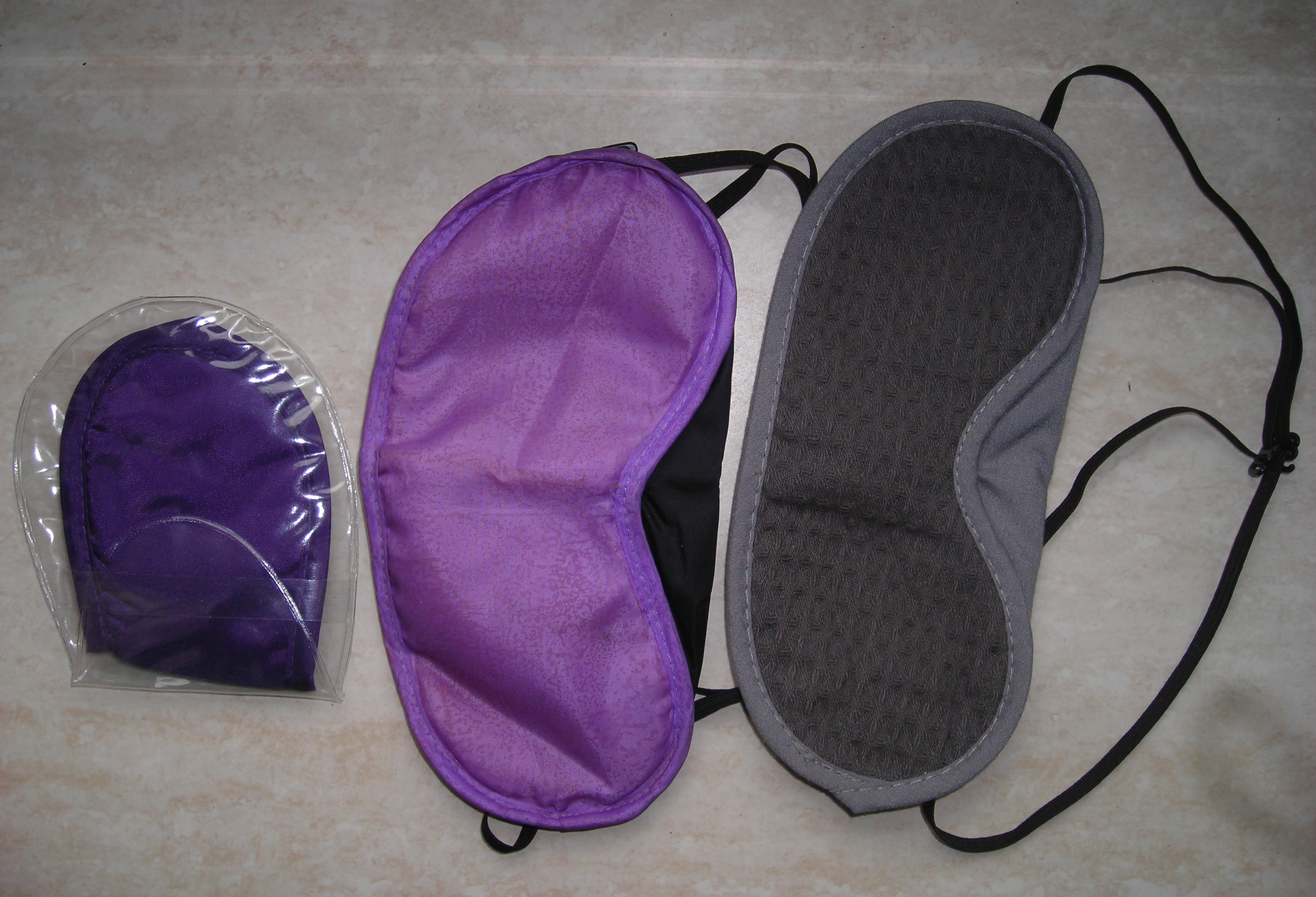 Sleeping masks (give-aways from airlines)